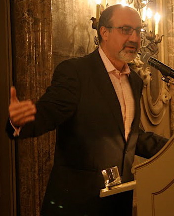 Author: Attilio Bottura. available for public use as per the subject's I also got explicit permossion for the use of the image from the website owner himself under creative commons. Taleb's Permission Taleb who has the rights gives explicit permission on his website.